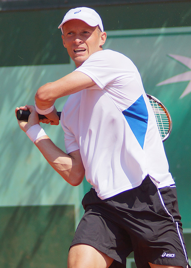 Nikolay Davydenko on the Rollan Garros 2012